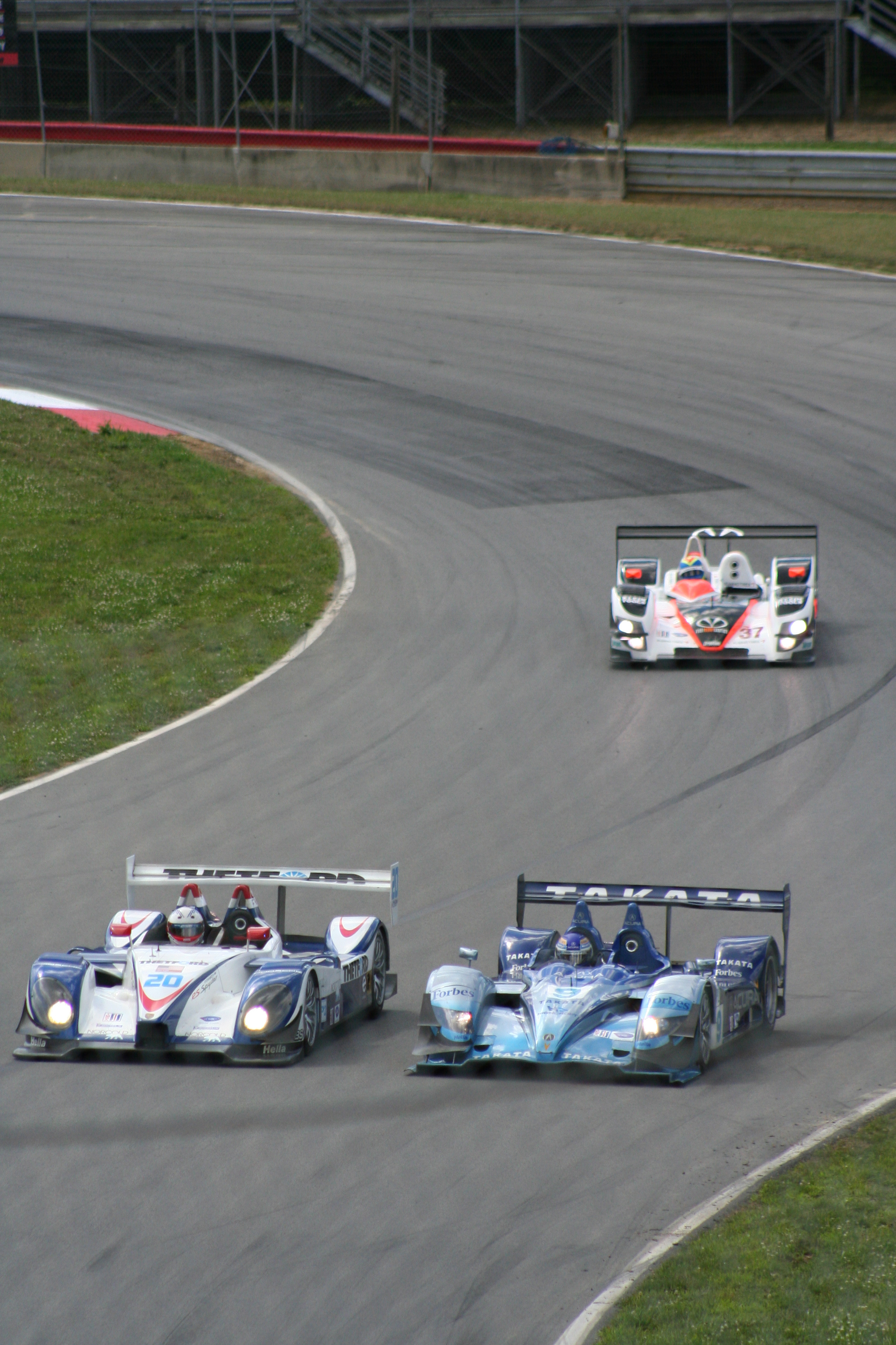 Highcroft's Acura ARX-01a alongside Dyson's Porsche RS Spyder, followed by Intersport's Creation CA06/H-Judd.